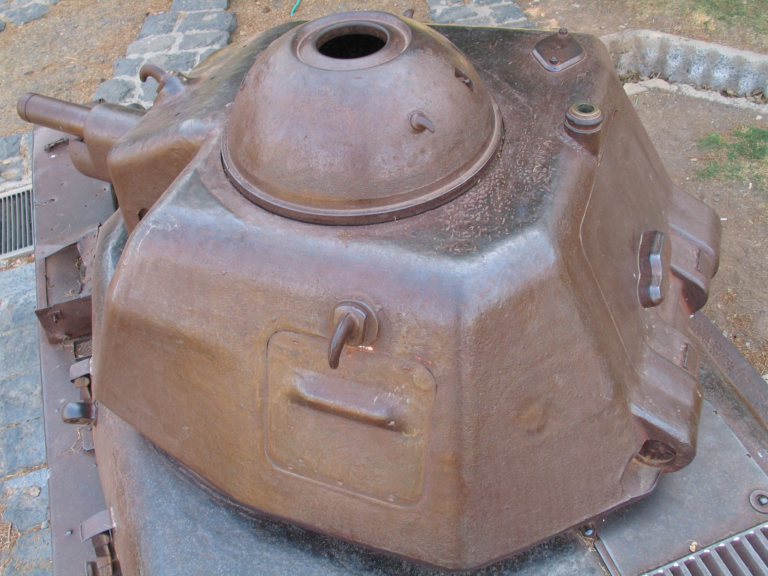 Captured Syrian Renault R 35 tank at kibbutz Dgania Alef, Israel.